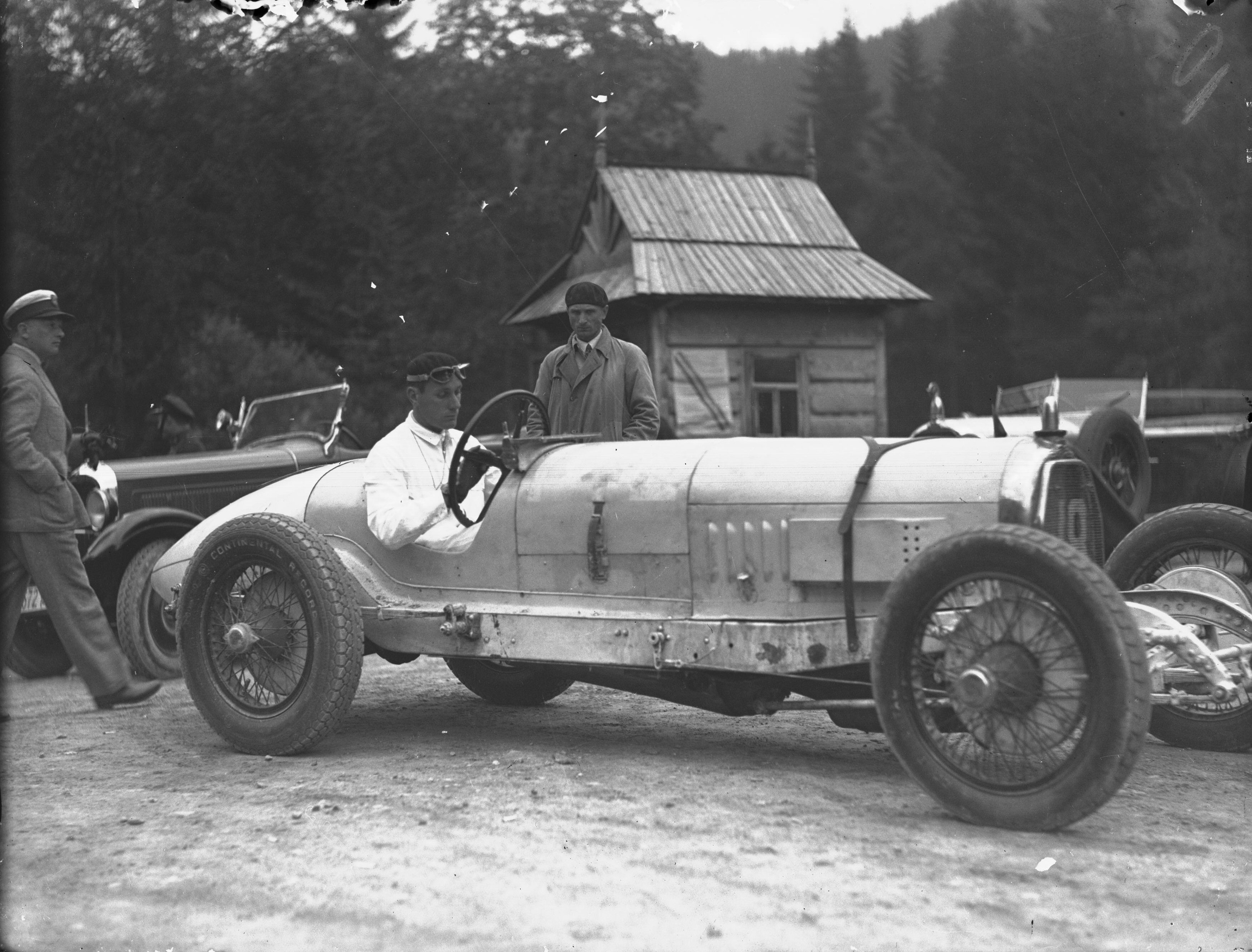 3rd International Tatra Rally, Poland, August 1930. Hans von Stuck in Austro-Daimler.